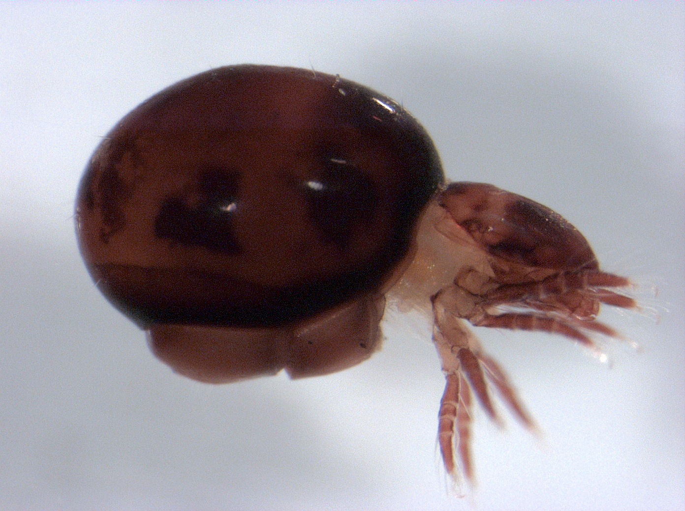 unidentified phthiracarid mite